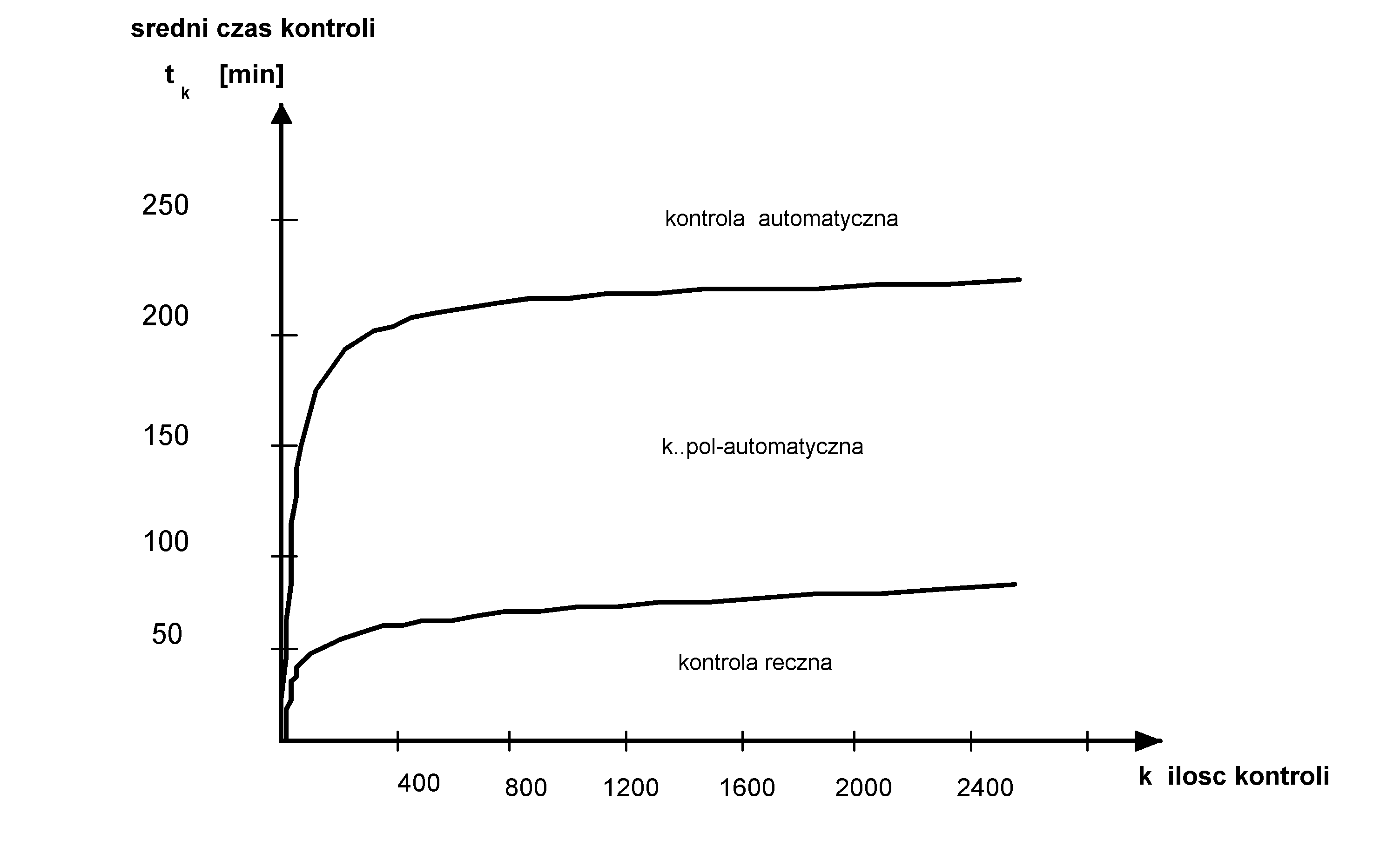 Results automation of control system